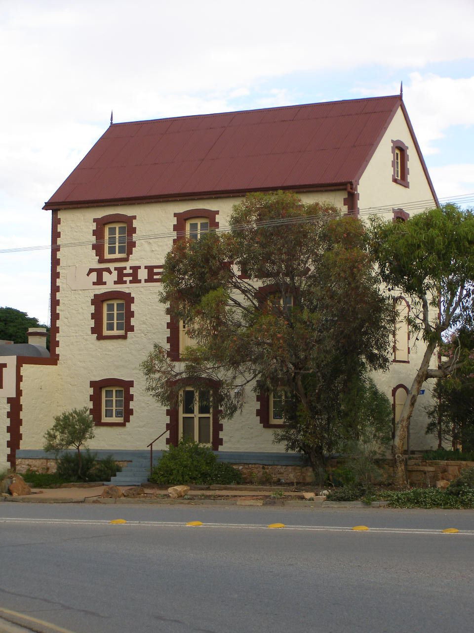 The Old Mill (now a motel and restaurant), Quorn, South Australia